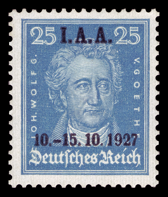 series of stamps of the German Empire for the congress of the international employment office 1927, Johann Wolfgang von Goethe (1749-1832) Ausgabepreis: 25 Pfennig First Day of Issue / Erstausgabetag: 10. Oktober 1927 Michel-Katalog-Nr: 409 (Deutsches Reich)